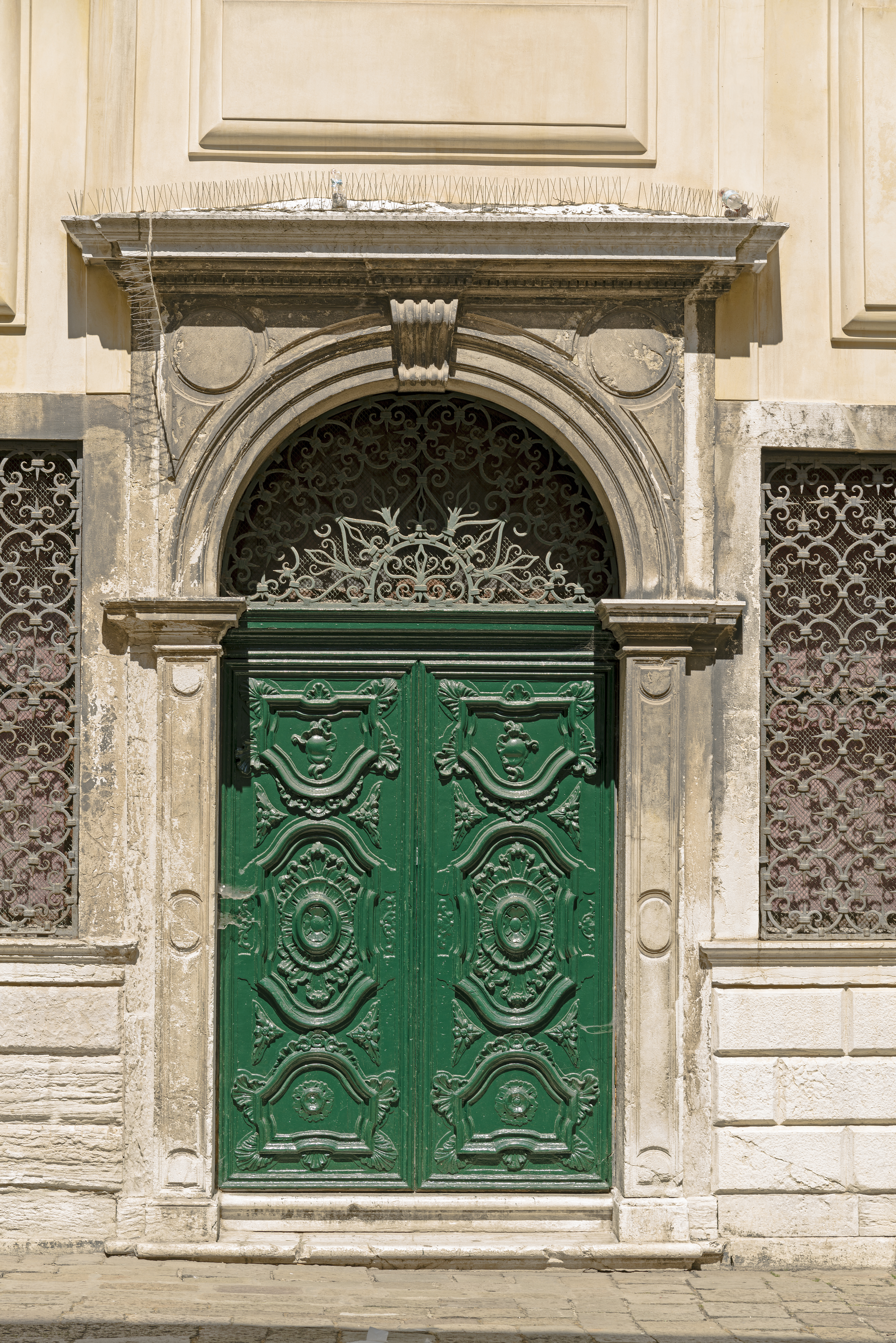 Door rococo of "Scola" (ie synagogue) "Levantine" (the XVIII cent.), In the Campo delle Scole ghetto of Venice